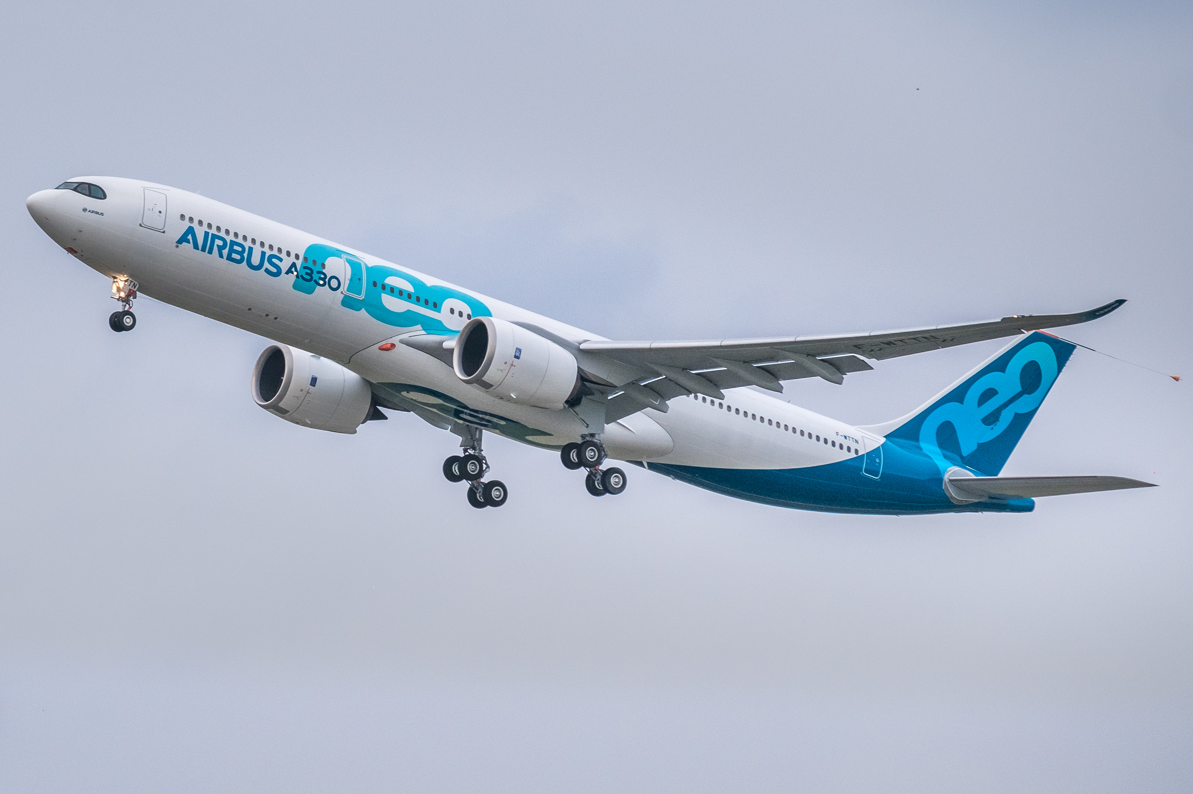 Airbus A330neo First Flight. 19 October 2017, Toulouse, France.